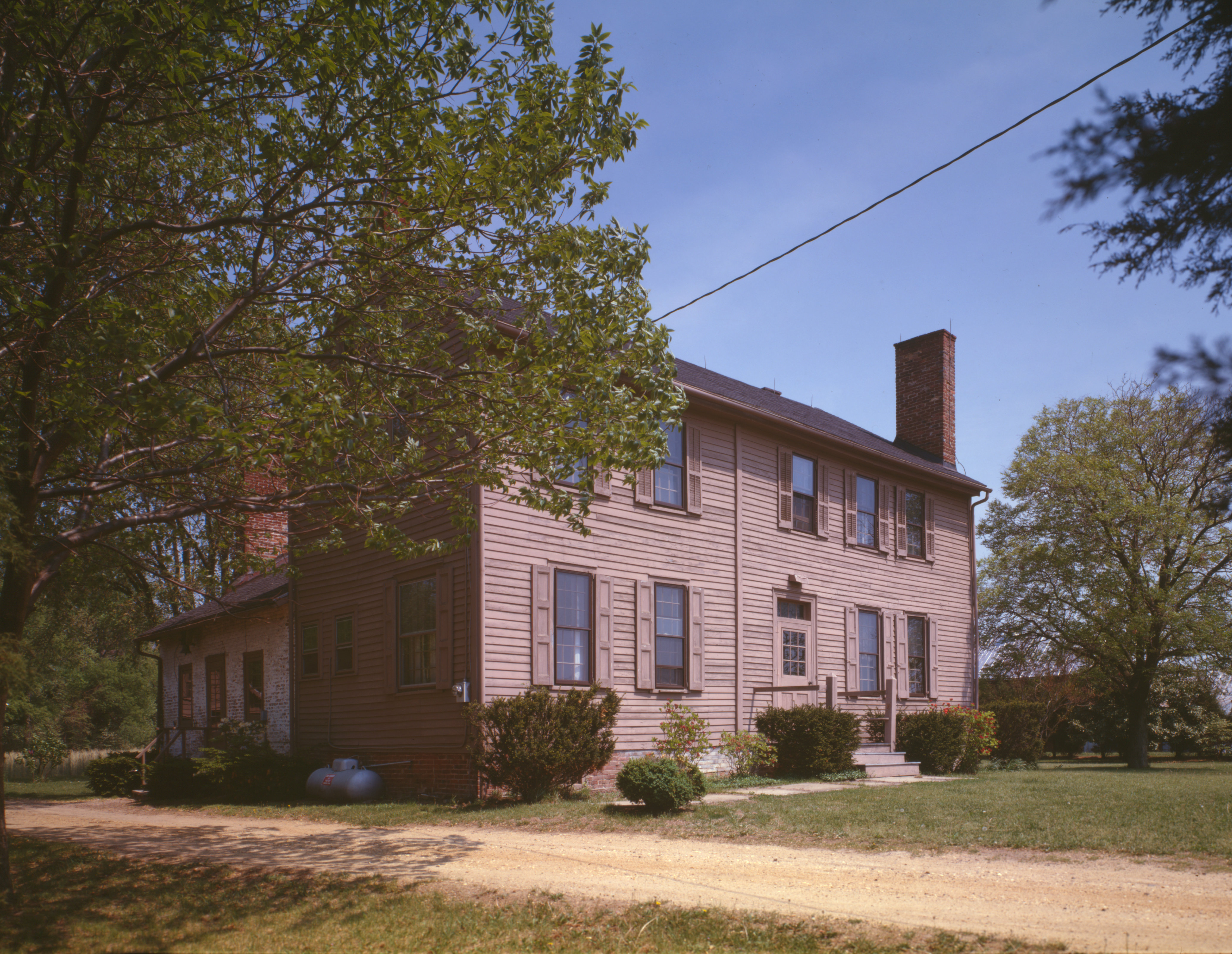 SOUTHEAST FRONT AND NORTHEAST SIDE - Brecknock, U.S. Route 13, Camden, Kent County, DE